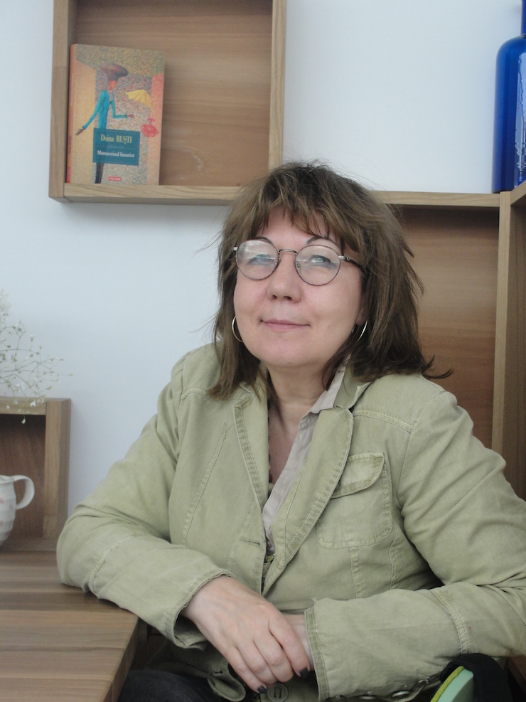 Doina Ruști, a photo made by Constantin Piștea